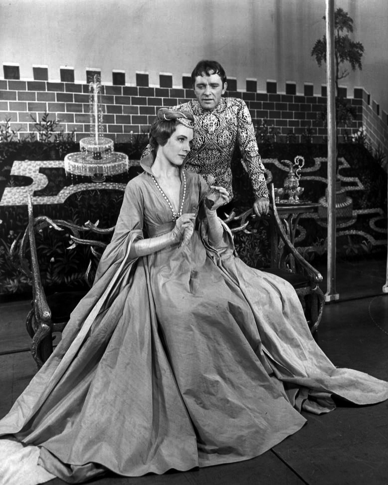 Photo of Julie Andrews as Queen Guenevere and Richard Burton as King Arthur from the Broadway production of Camelot.